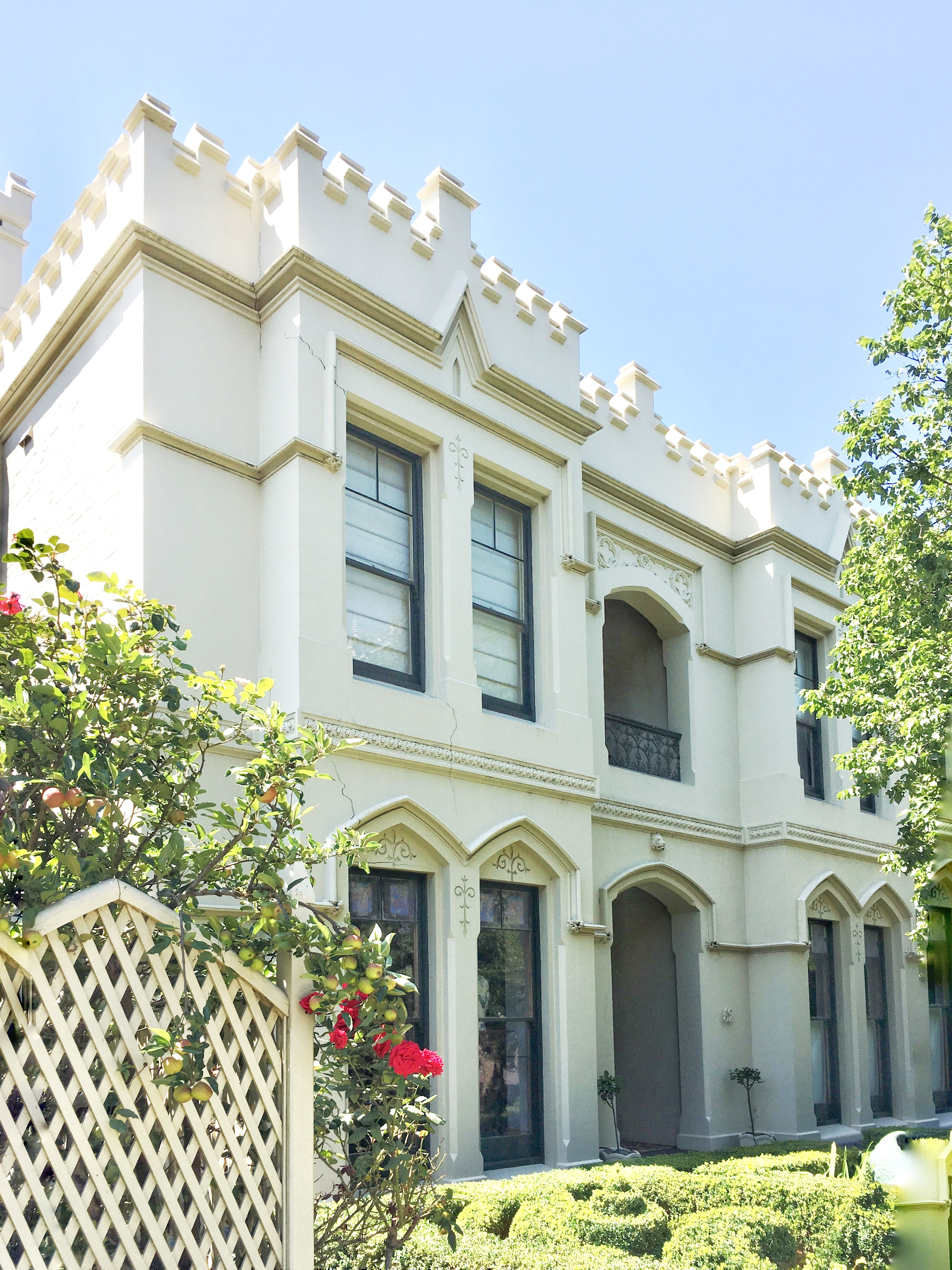 Tudor House, Pasco streets, Williamstown, 1884, John Beswicke